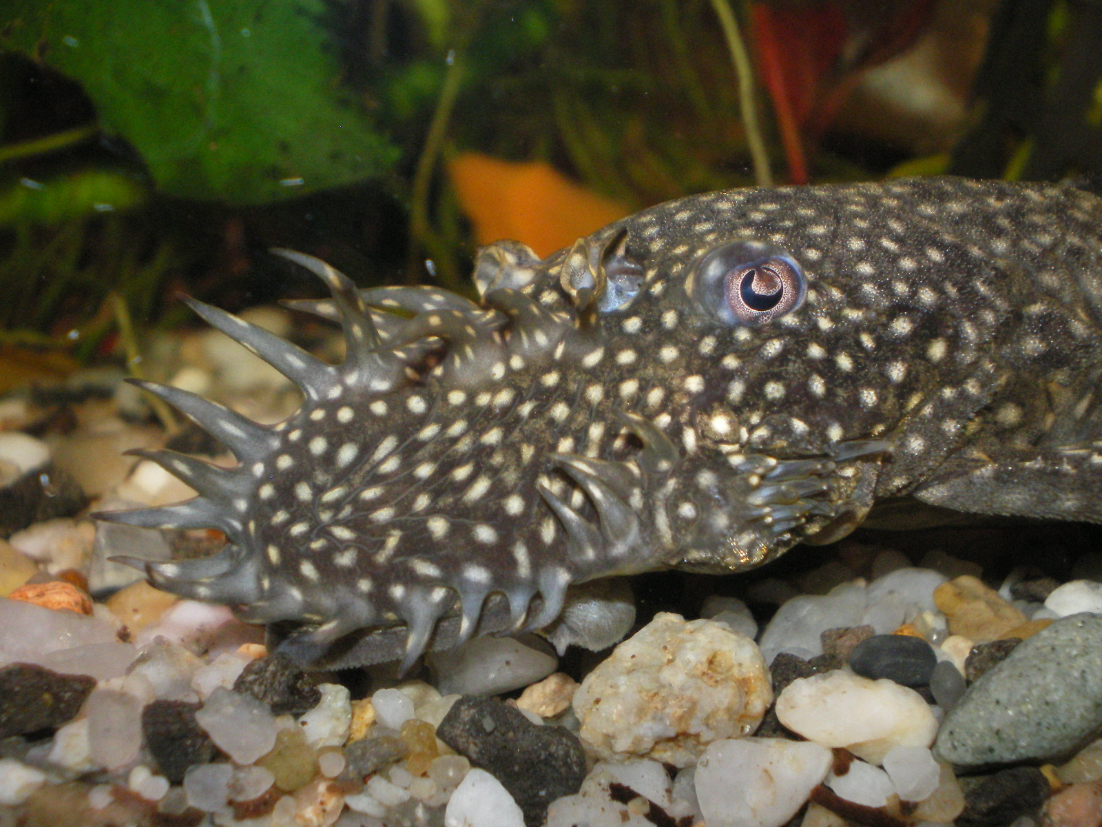 Ancistrus sp.head